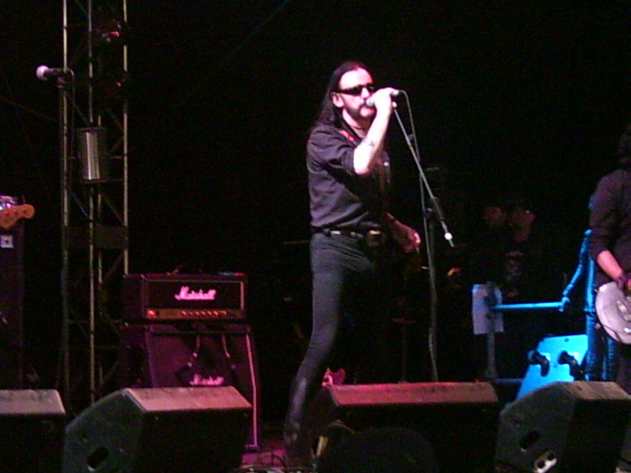 Lemmy Kilmister (of Motorhead) on stage with the DKT/MC5